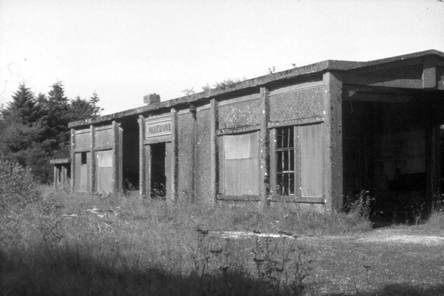 Parkmore Station Parkmore Station opened 01-09-1888, closed 01-10-1930. A narrow gauge railway line opened by the Ballymena, Cushendall & Red Bay Railway Co., that ran from Ballymena to Parkmore, (near Glenariff). The railway was absorbed by the Northern Counties, and later the LMS/NCC. It was closed by the LMS/NCC in 1930.